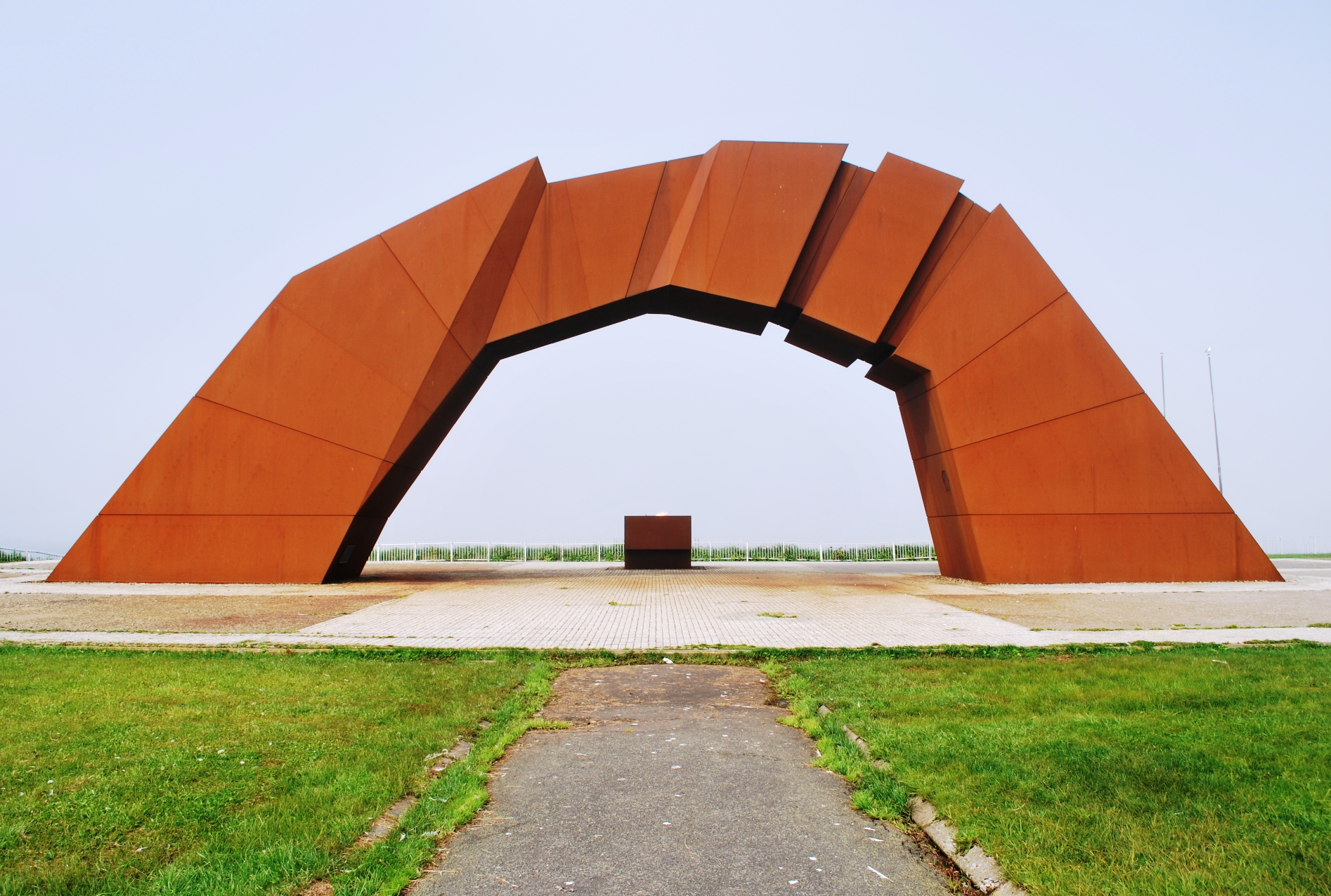 The bridge of 4 Island monument with pray flame at Nossapu cape